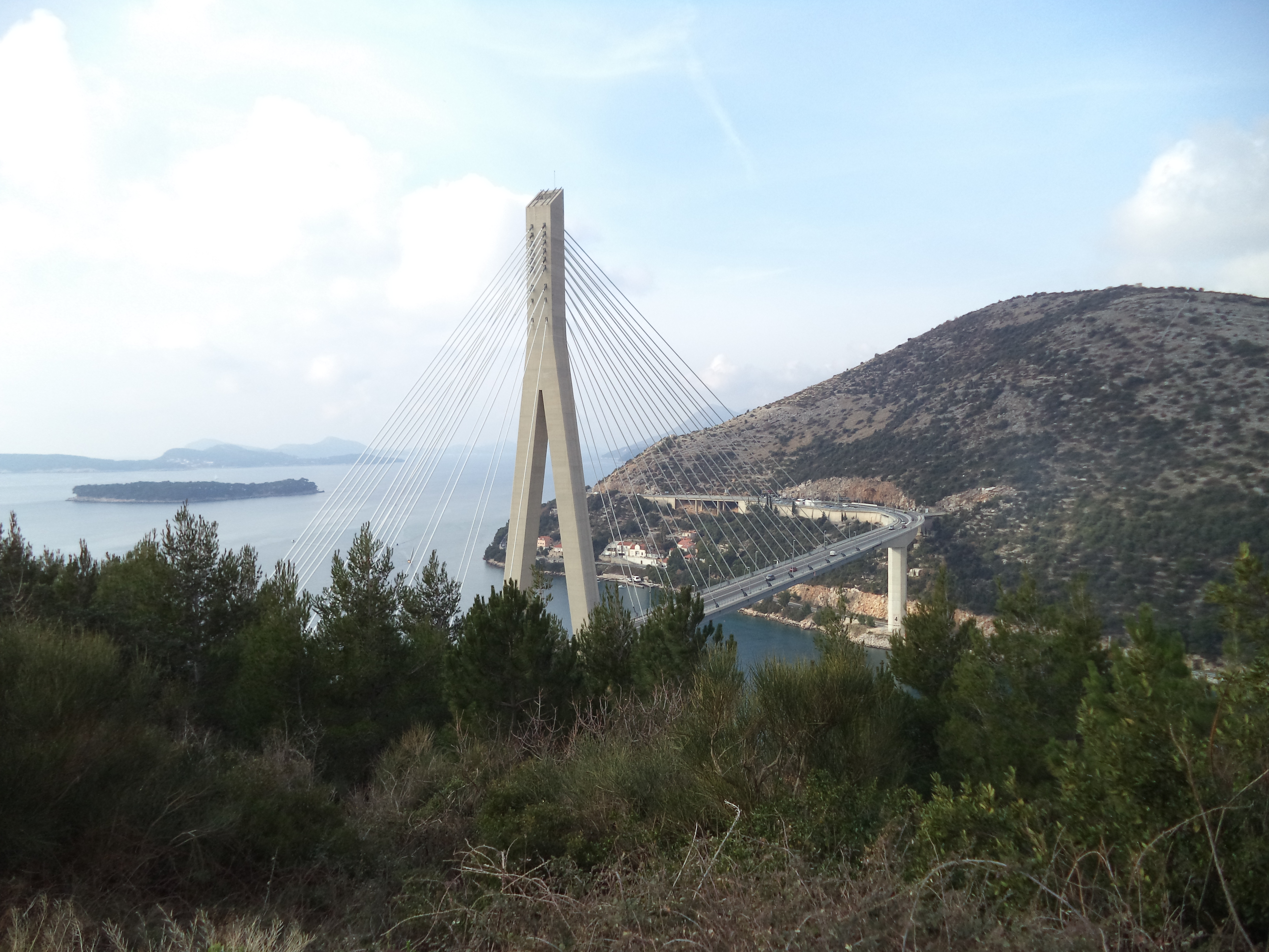 dr. Franjo Tuđman bridge, Dubrovnik